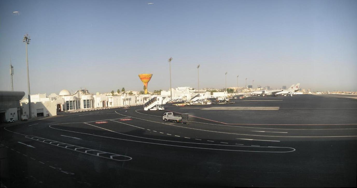 Panoramic view of Doha International Airport. The royal and V.I.P. lounges are on the left. Aircrafts of Qatar Airways are parked, the skyline of Doha is visible.